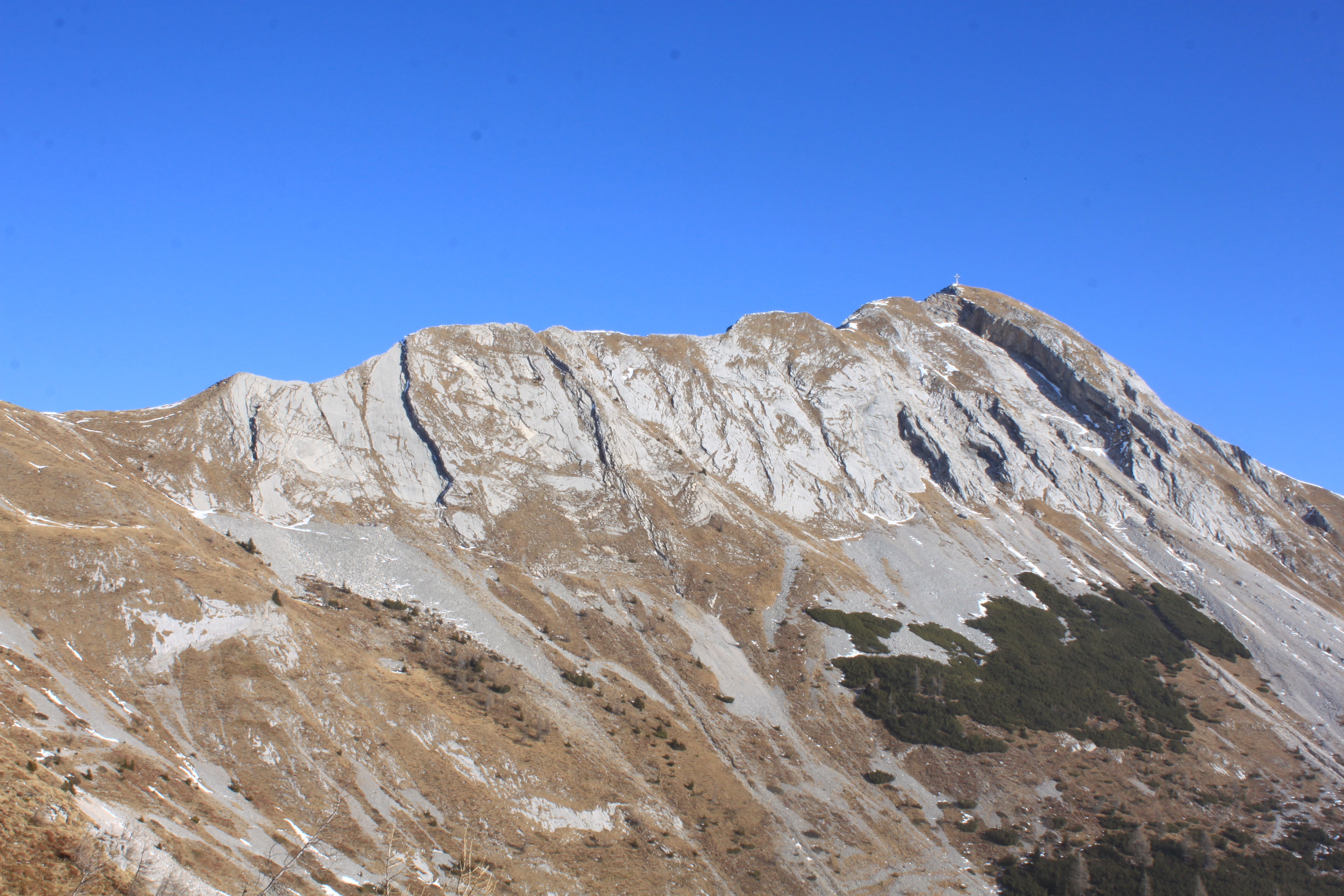 Torkofel (2,276 m) above Jauken Alm meadow, the highest peak of Jauken group, Gailtal Alps, Austria.